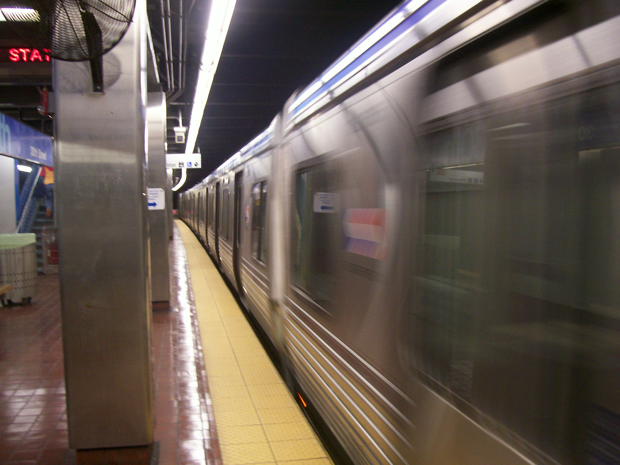 Market-Frankford Line Train consisting of M-4 Railcars leaving 30th Street Station inbound to Center City Philadelphia. June, 2006.